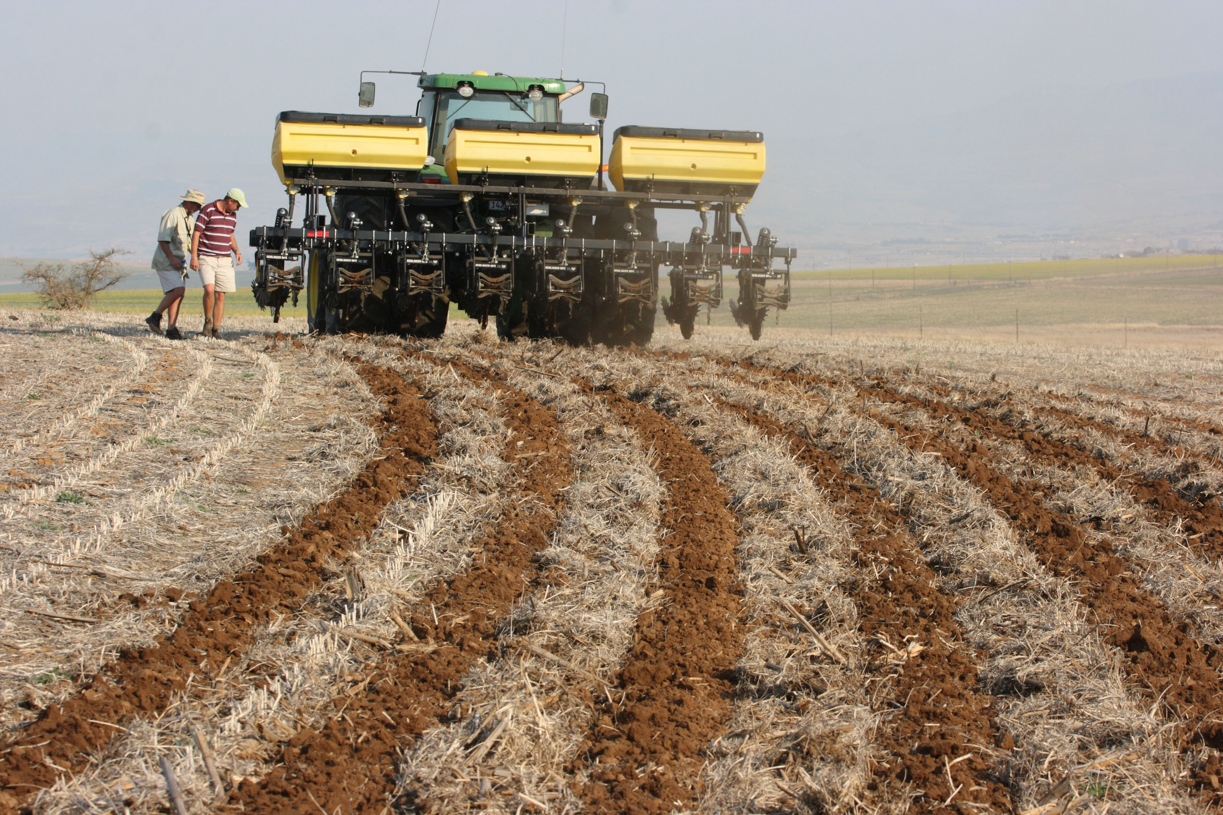 Strip-till. An eight-row strip-till implement being demonstrated at the 2011 conference of the KwaZulu-Natal No-till Club. At Drakensville, South Africa.